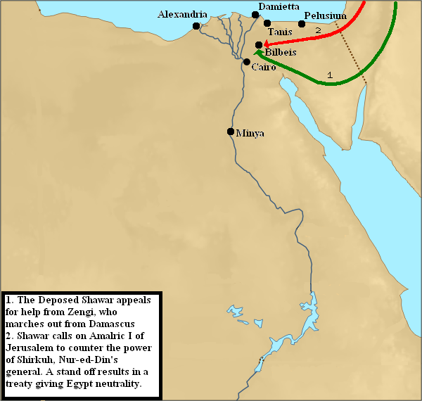 Map showing second invasion by Crusaders of Egypt